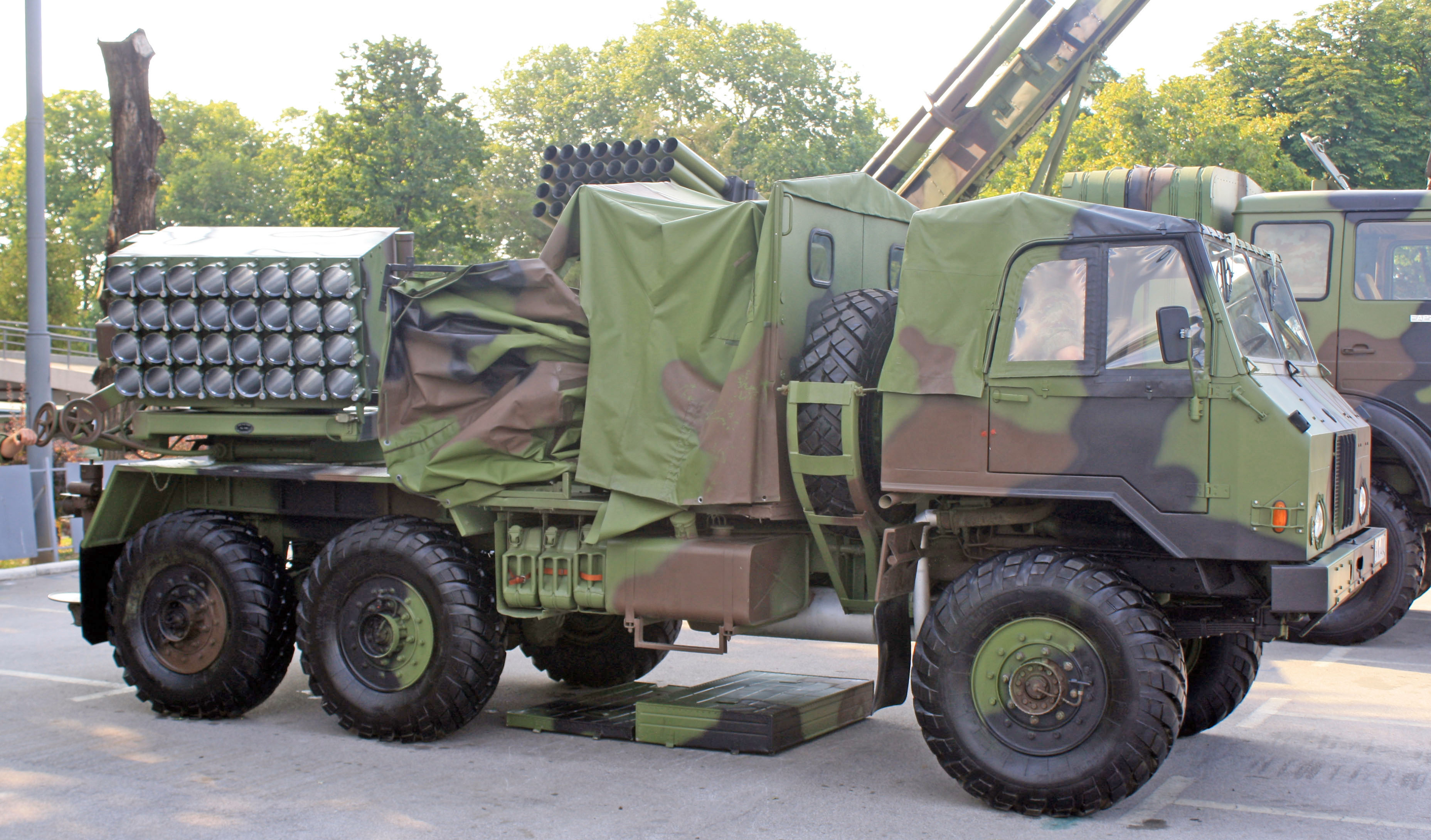 M94 Plamen S 128mm multiple rocket launcher of Serbian Army on display at "Partner 2013" military fair.